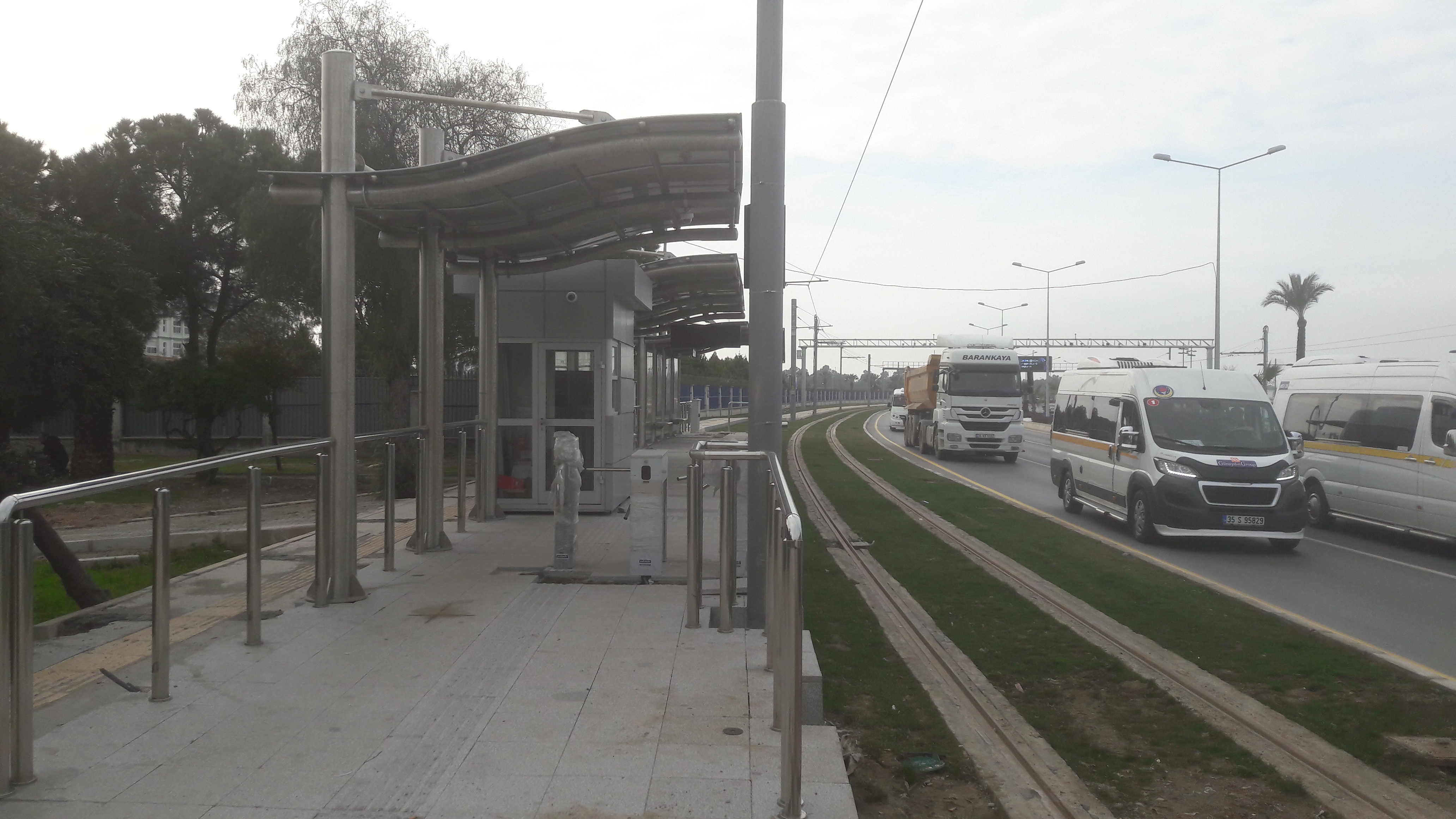 Ahmet Adnan Saygun Sanat Merkezi station on the Konak Tram line.